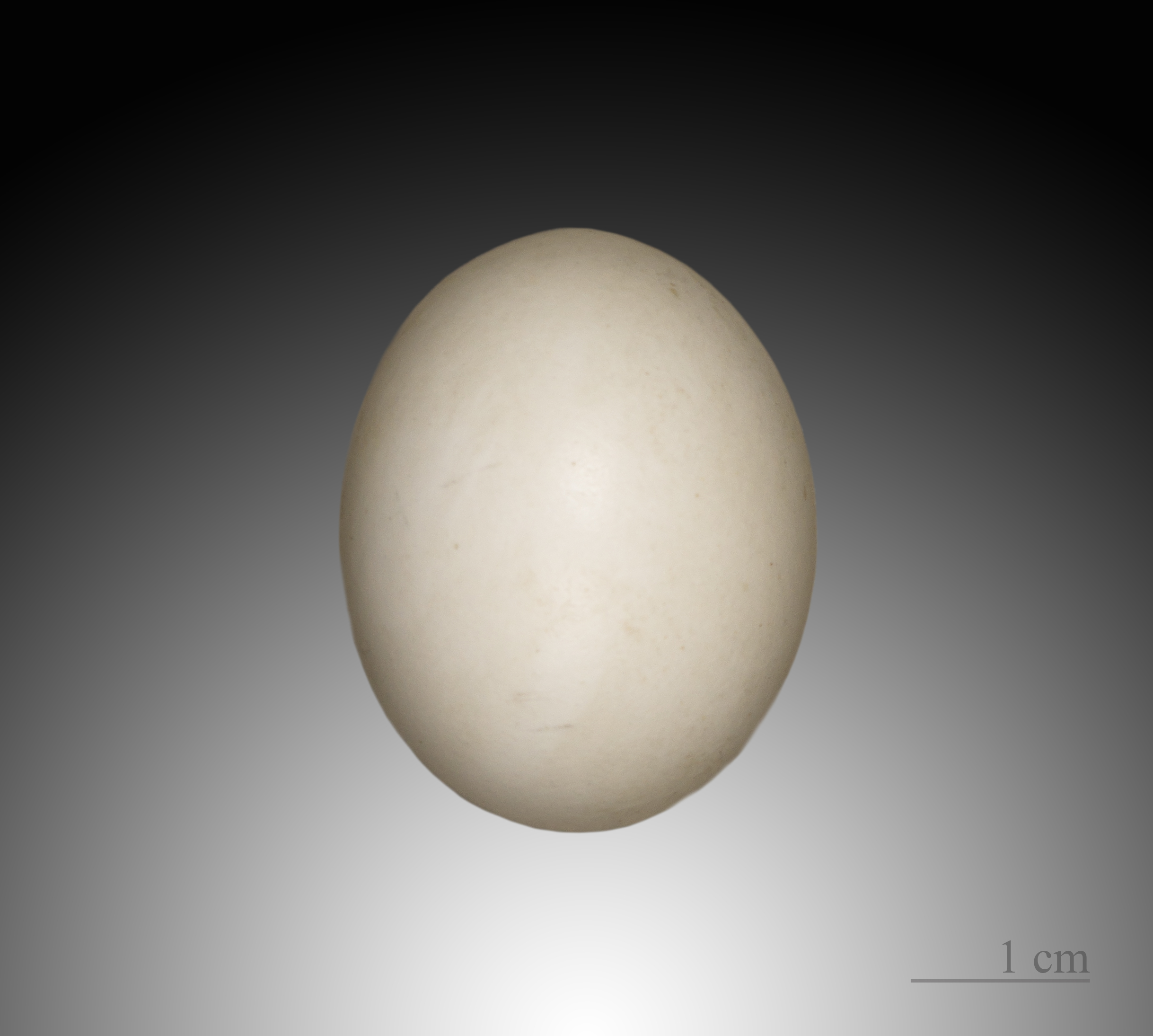 Egg of Oriental Turtle Dove. Collection of Jacques Perrin de Brichambaut. Locality : Sosnovka, Russia.